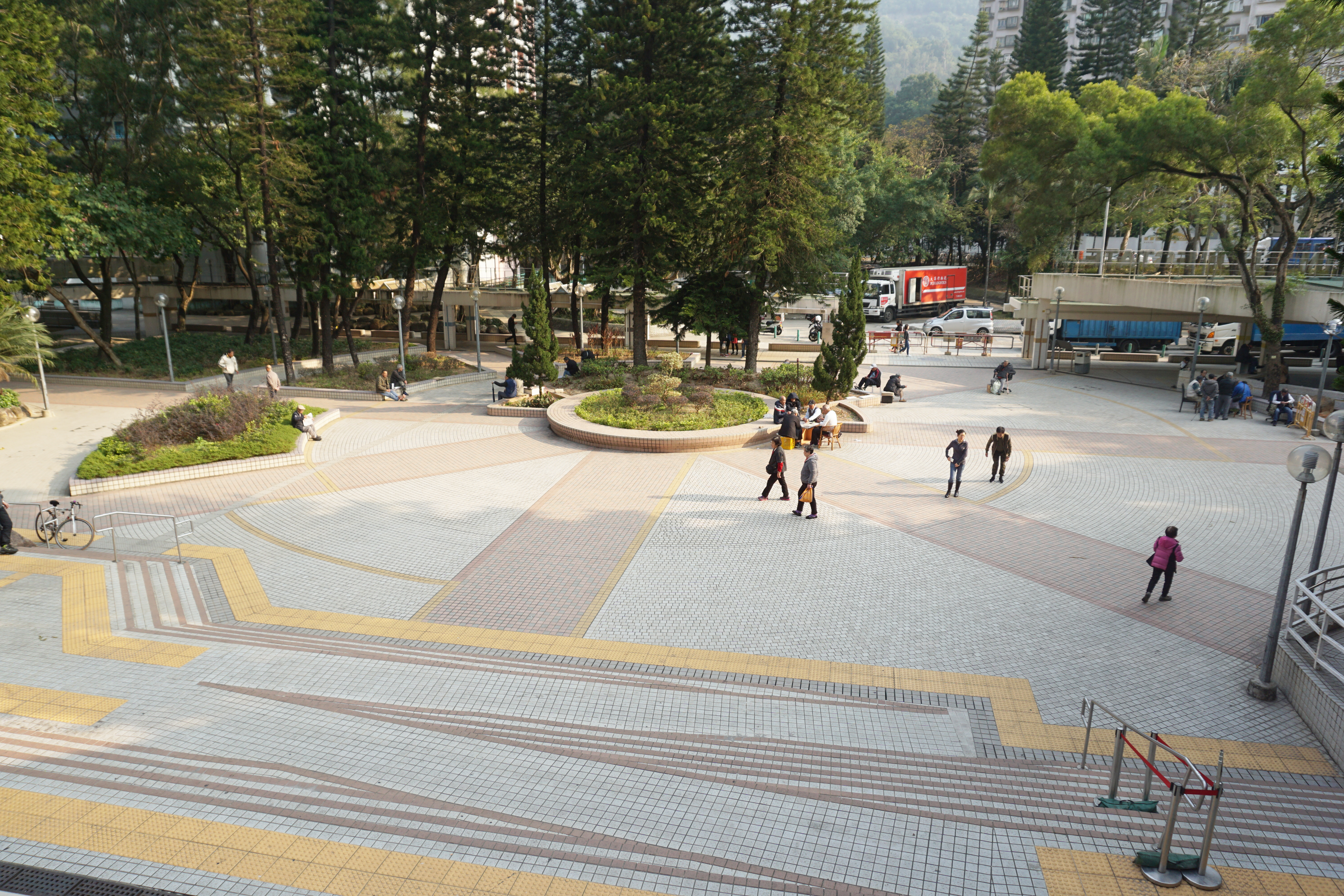 Sun Chui Estate in Tai Wai, Hong Kong.